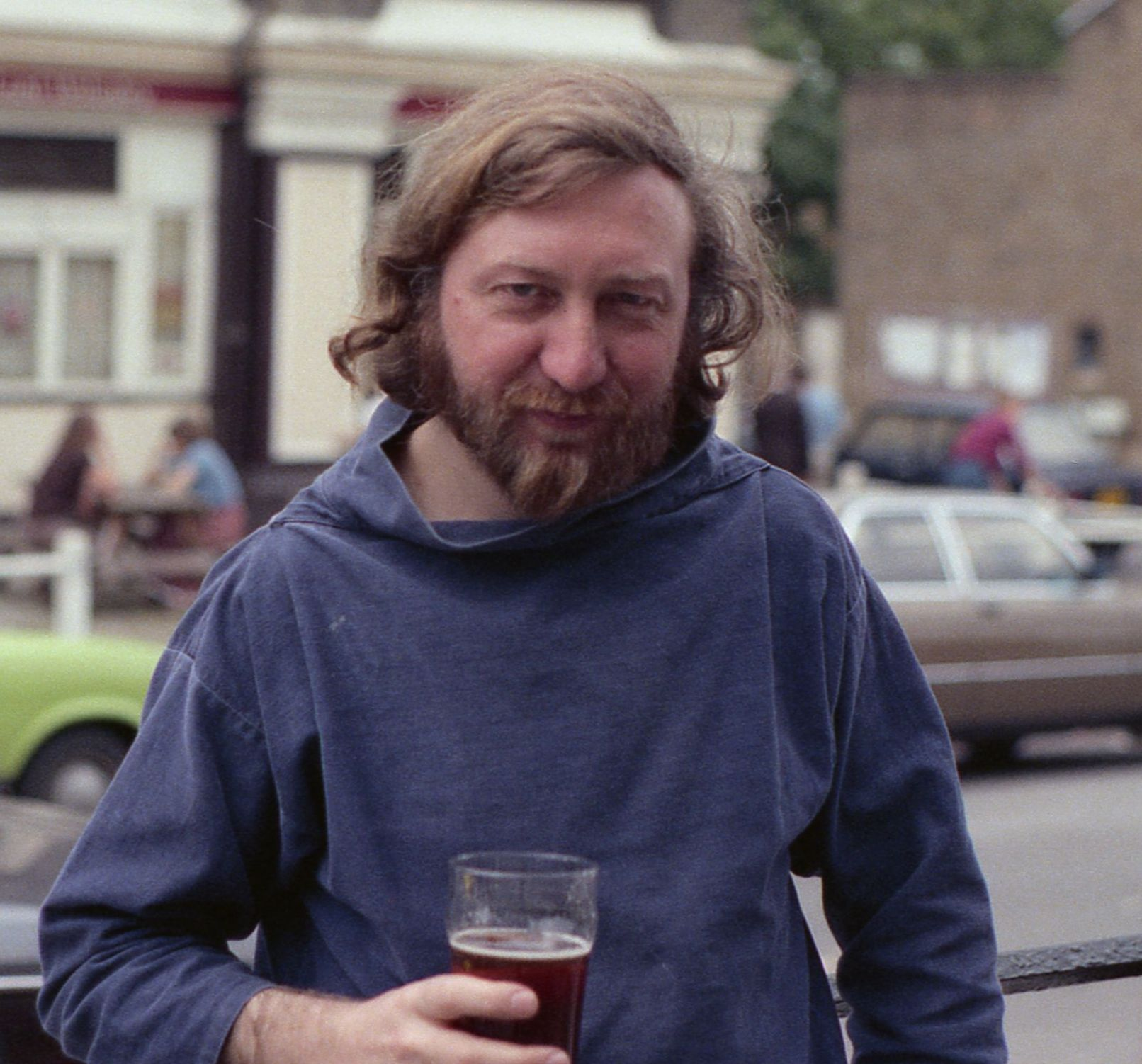 Dr Cyril Edwards, drinking at the Wickham Arms, New Cross, London, June 1983.